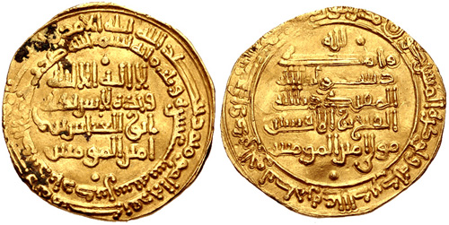 ISLAMIC, Caucasus (Pre-Seljuq). Sajids. al-Fath ibn al-Afshin. AH 315-317 / AD 927-929. AV Dinar (21mm, 3.96 g, 4h). Ardabil mint. Dated AH 316 (AD 928/9). Vardanyan 89; AGC I 253Ka; Album A1480; ICV 1561 (this coin illustrated). Good VF, minor green deposits, slighlty wavy flan. Extremely rare, ICV lists the value of this coin at $1500.